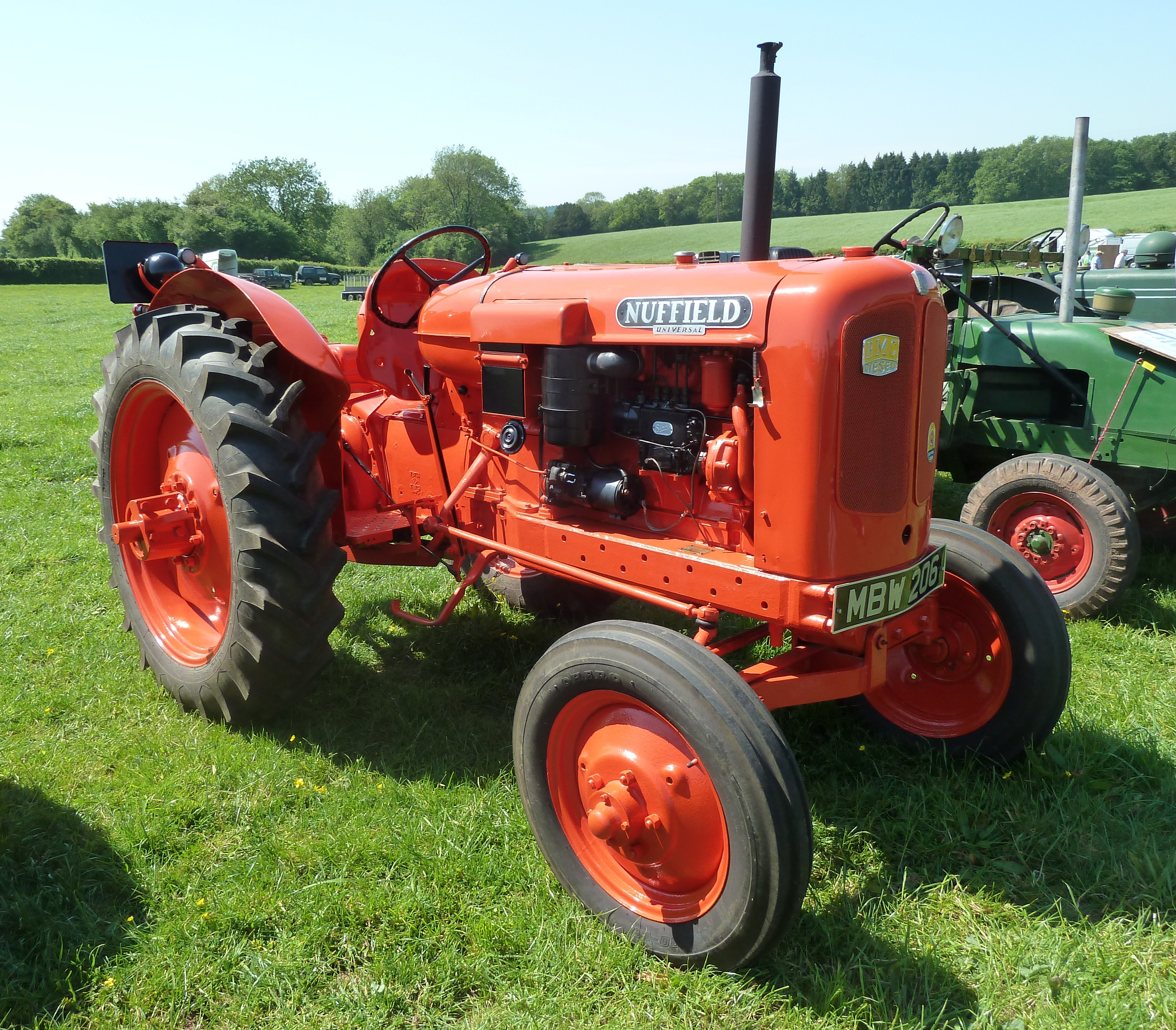 Nuffield tractor Cophill Farm vintage rally, near Chepstow, 2012.